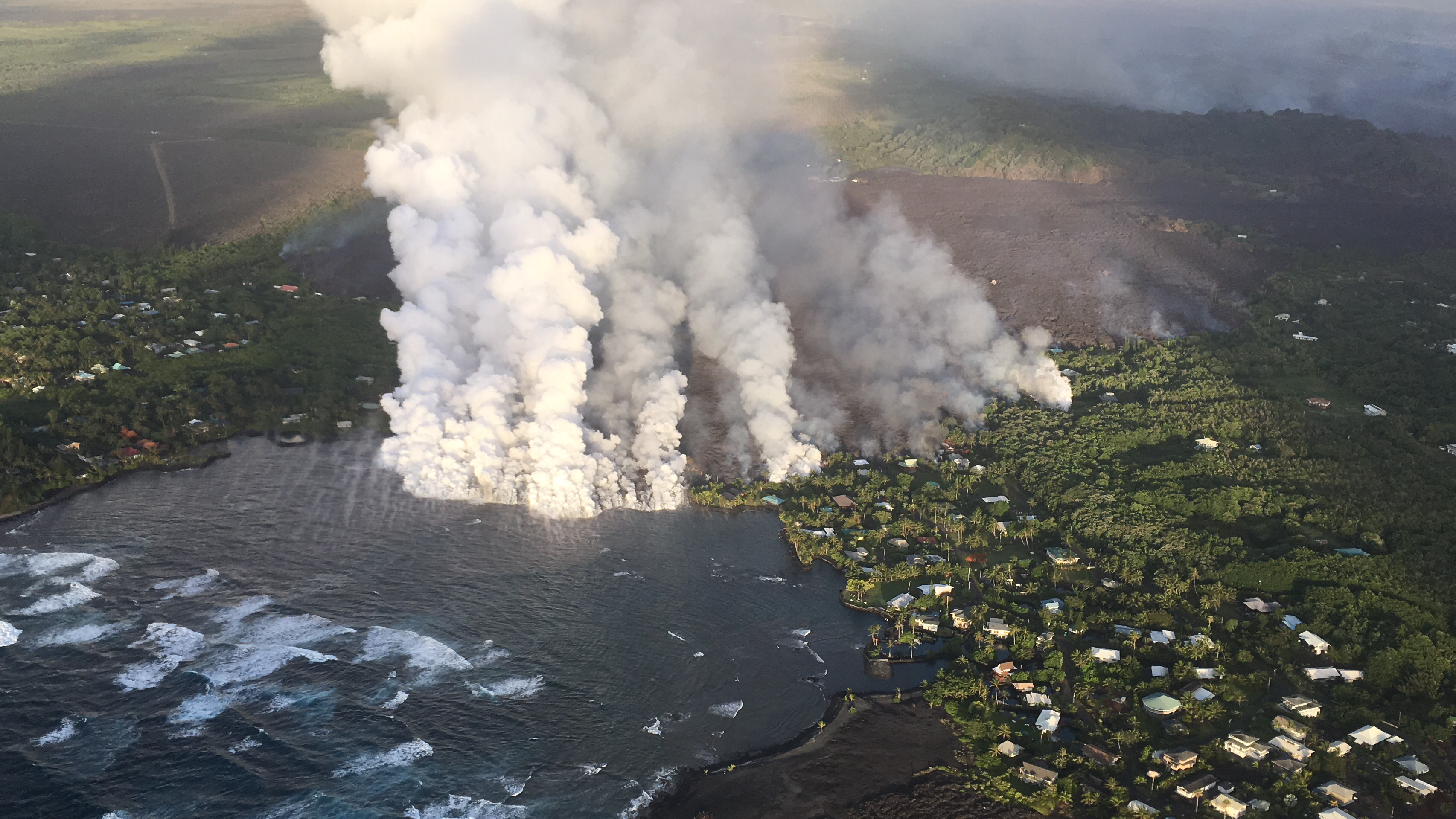 On June 4, 2018, a channel of lava from a fissure ten miles inland cut through the homes of Kapoho Beach Lots and Vacationland, and began to fill in the tide pools of Kapoho Bay.